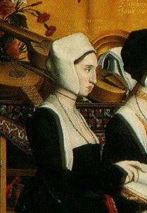 Detail of Margaret Giggs, adopted daughter of Sir Thomas More, from the portrait of the More family.